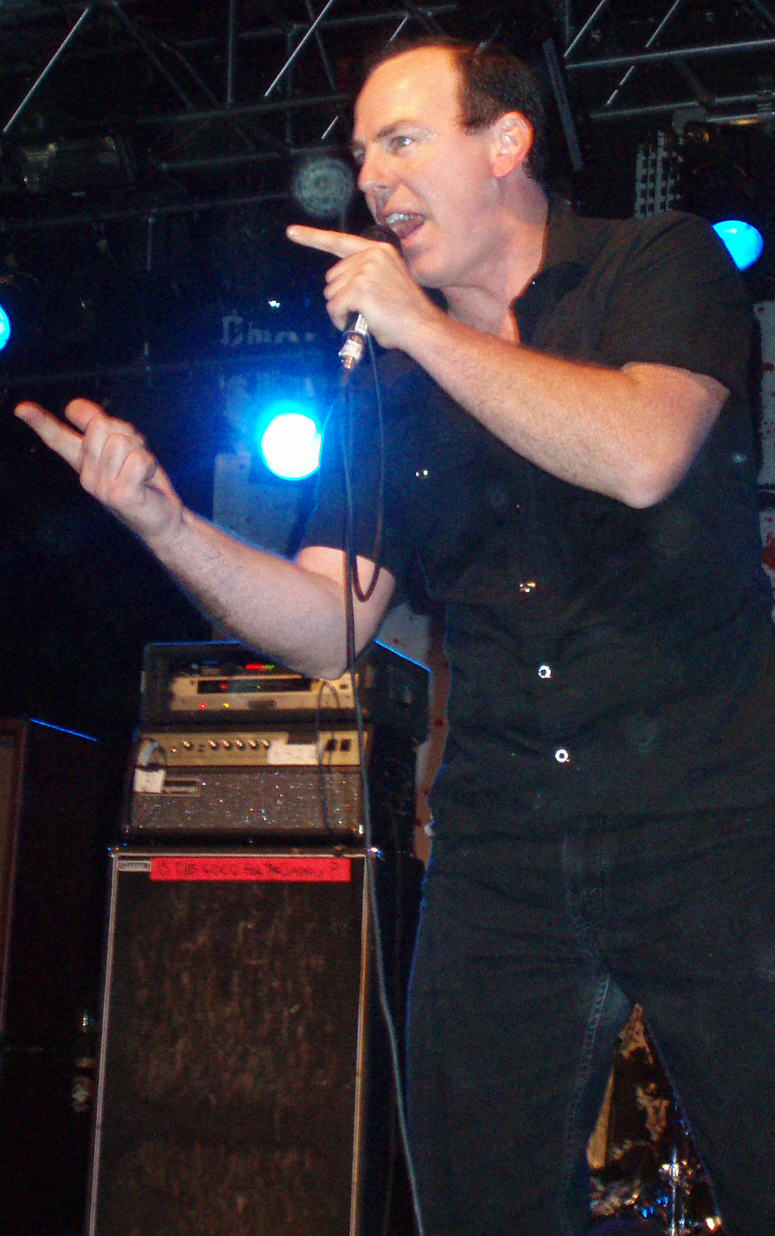 Photo taken by myself (Richard Acosta) during Bad Religion's concert at the Starland Ballroom in New Jersey.